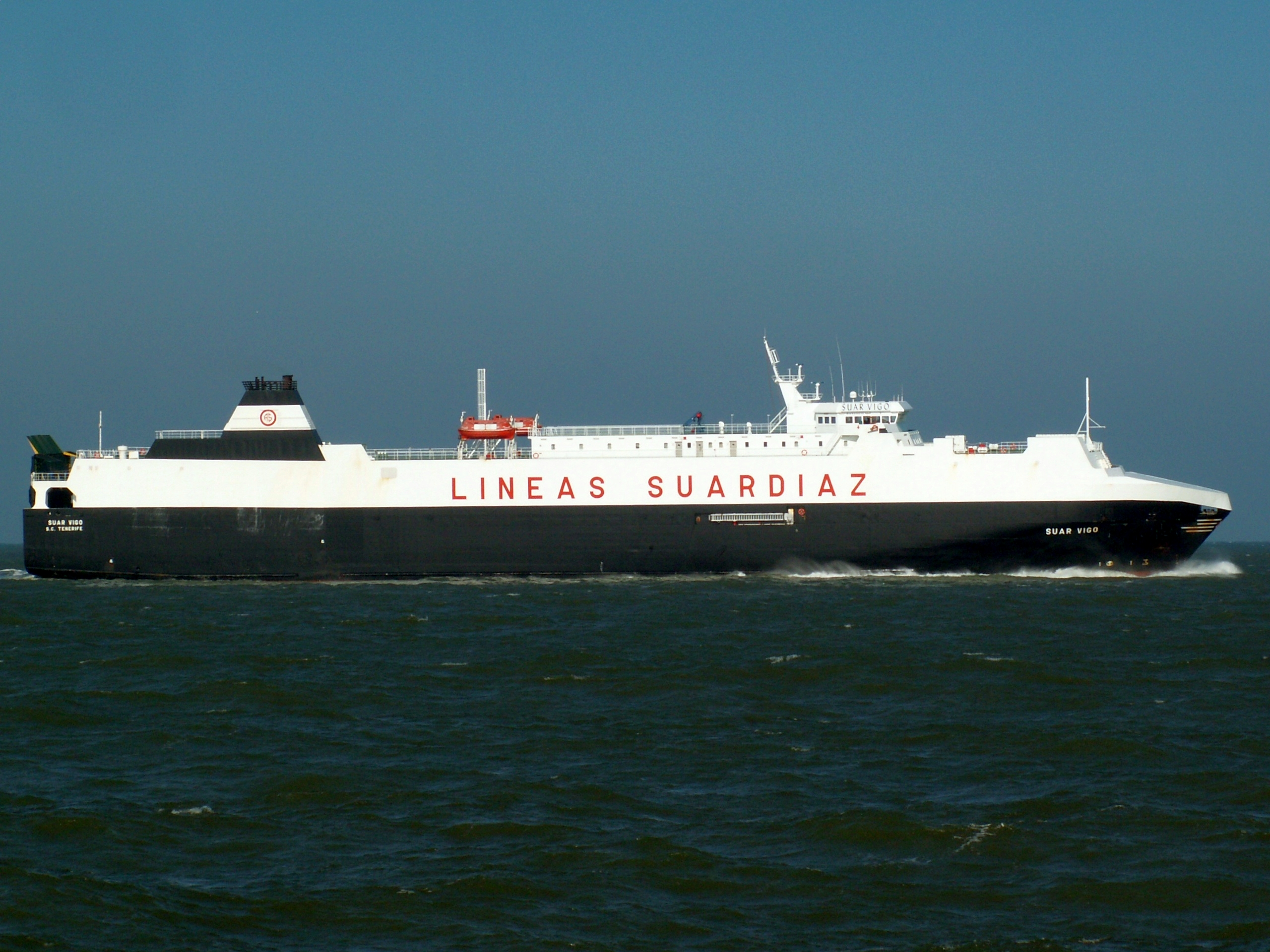 Photographed at the Port of Rotterdam, The Netherlands.